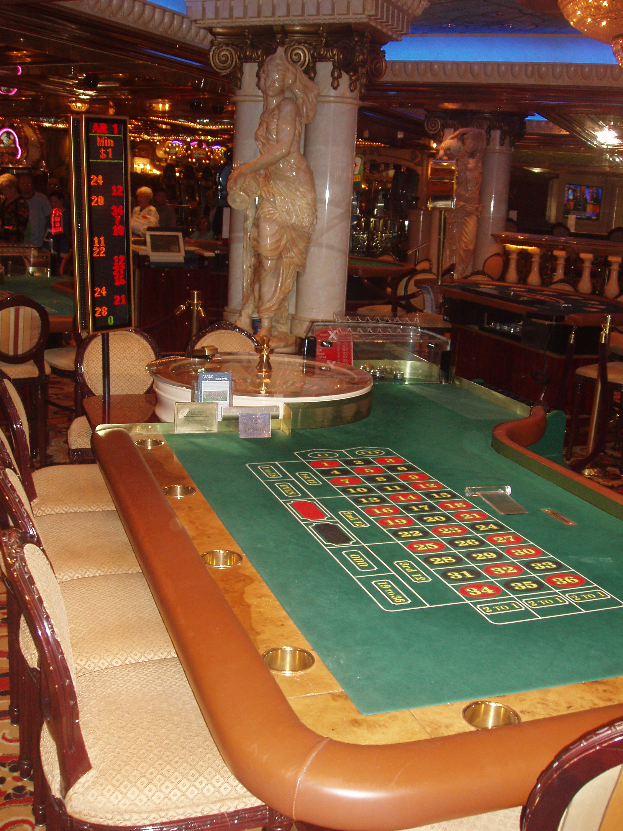 Roulette table in the casino on board the Celebrity Millennium cruiseship